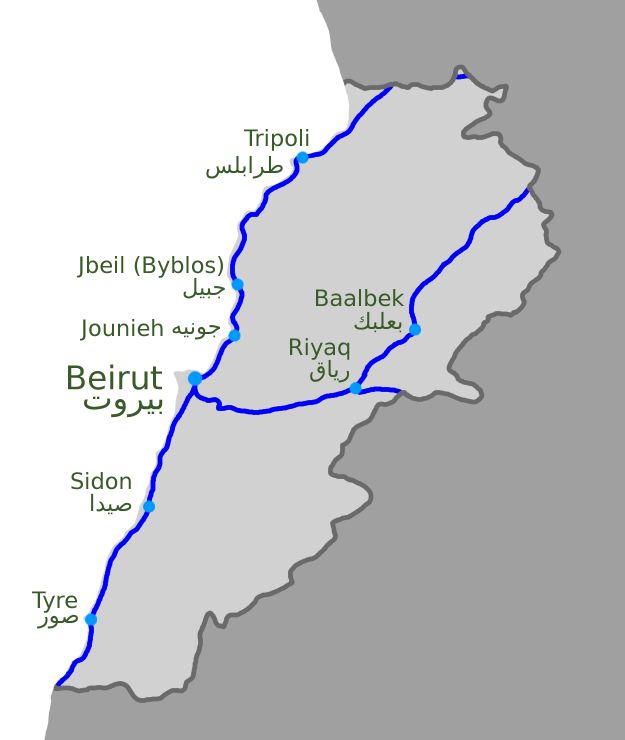 Map of the historic rail network of Lebanon.